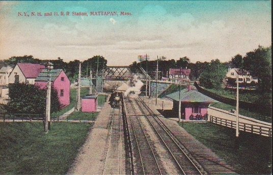 Early divided back postcard of Mattapan station on the Midland (Dorchester) Branch, near the site of the currently planned Blue Hill Avenue station